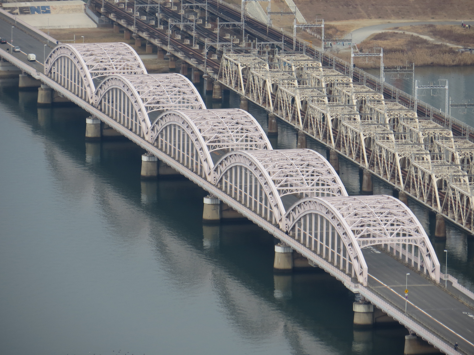 Juso Ohashi Bridge. View from Umeda Sky Building.